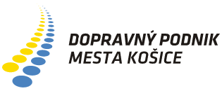 Logo of slovak public transportation company called Dopravný podnik mesta Košice